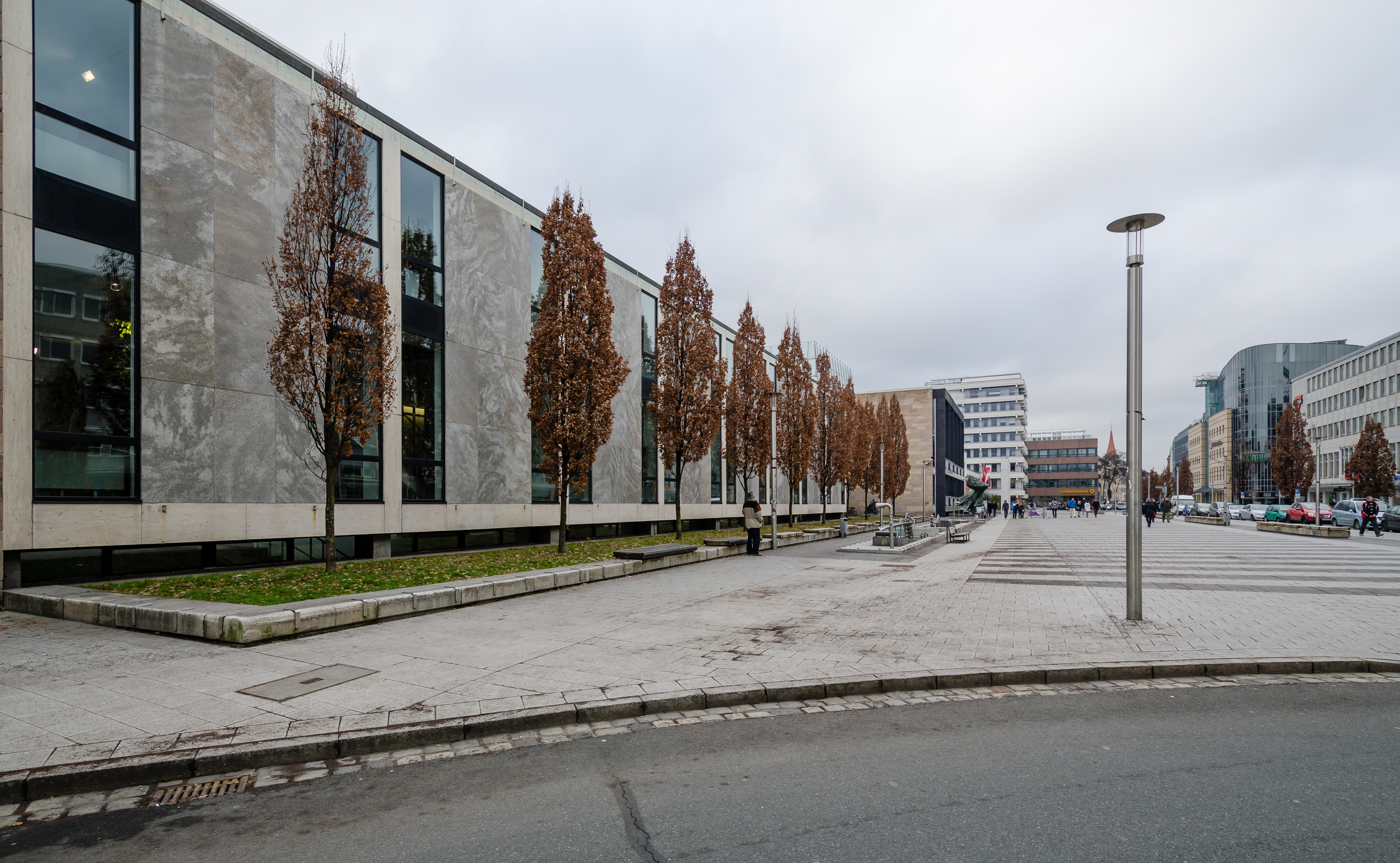 Germanistic National Museum in Nuremberg